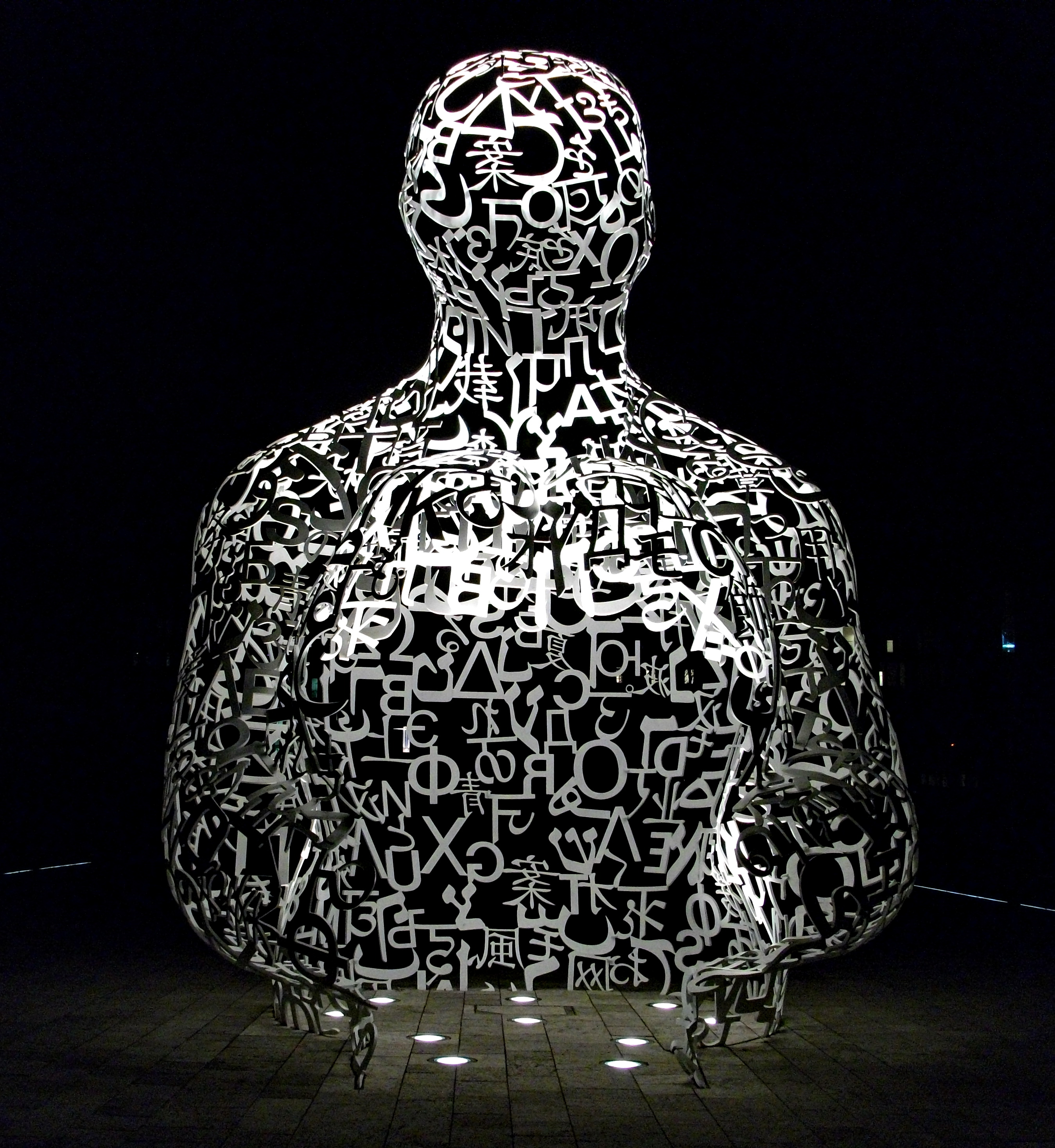 Steelsculpture "Body of Knowledge" (seen from the front) by Jaume Plensa at Campus Westend, Johann Wolfgang Goethe-Universität Frankfurt am Main, February 2012